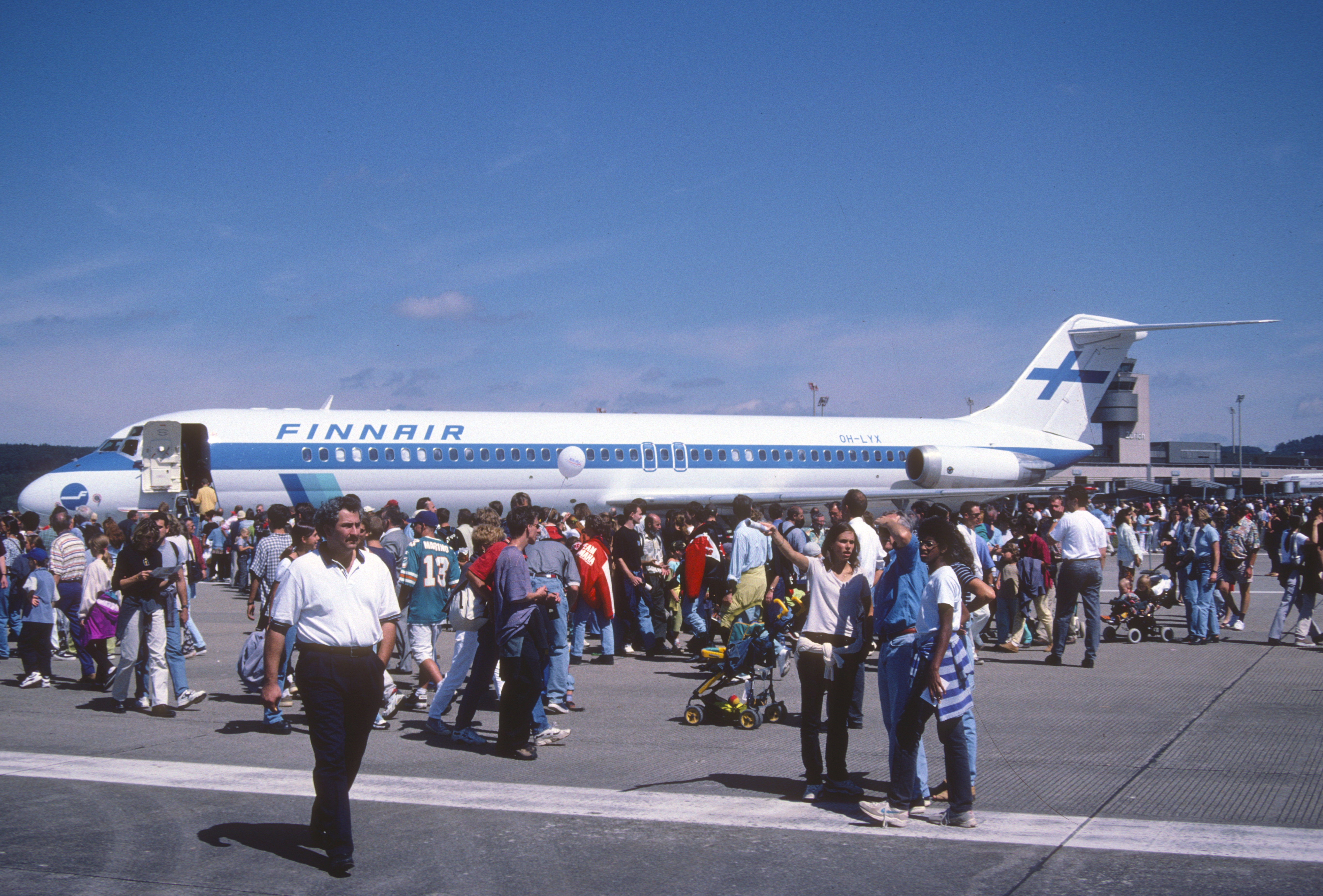 A Finnair Douglas DC-9-51 aircraft at (OH-LYX) Zürich International Airport in August 1998.